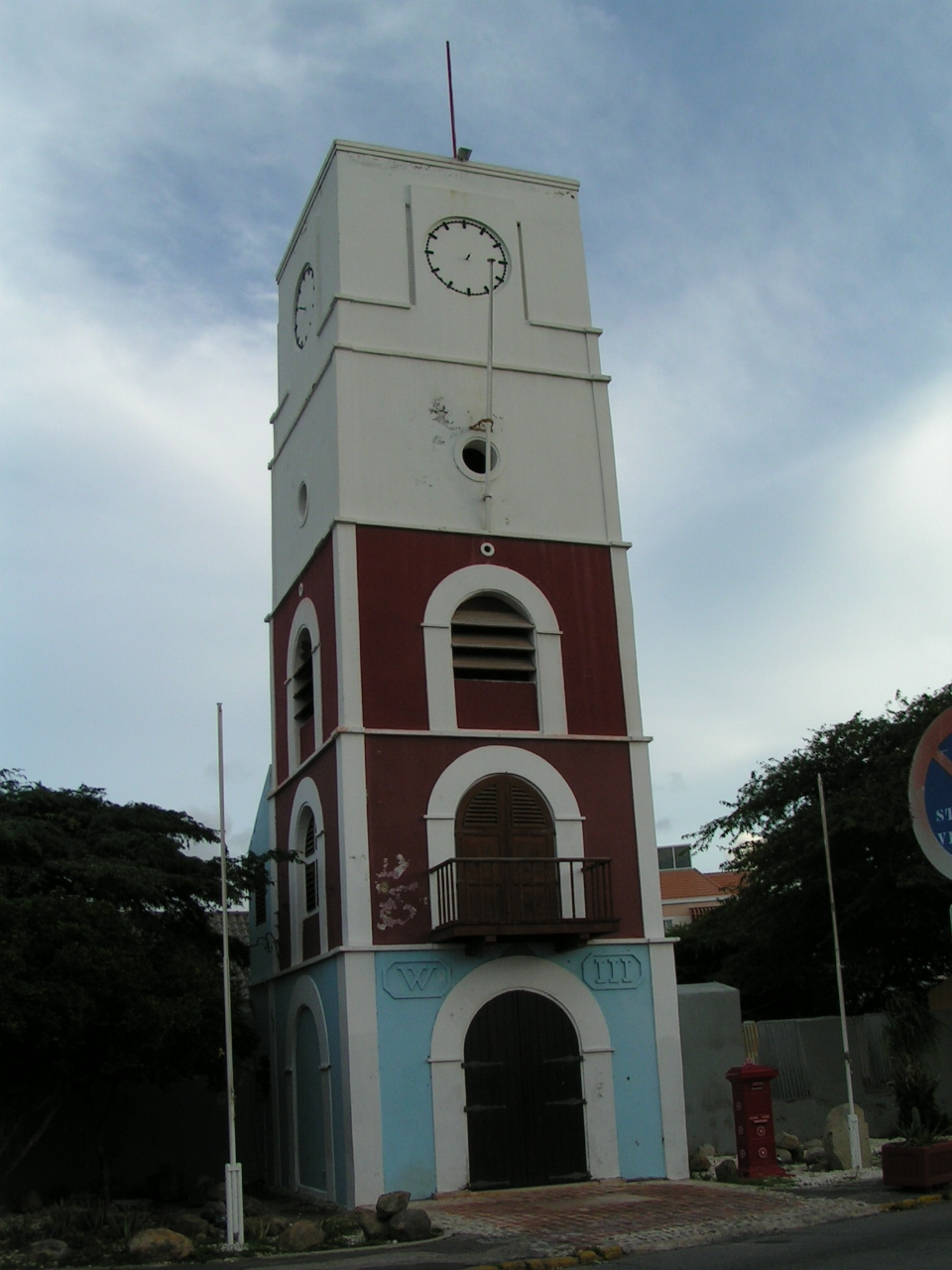 Willem III Tower at Fort Zoutman in Oranjestad, Aruba.